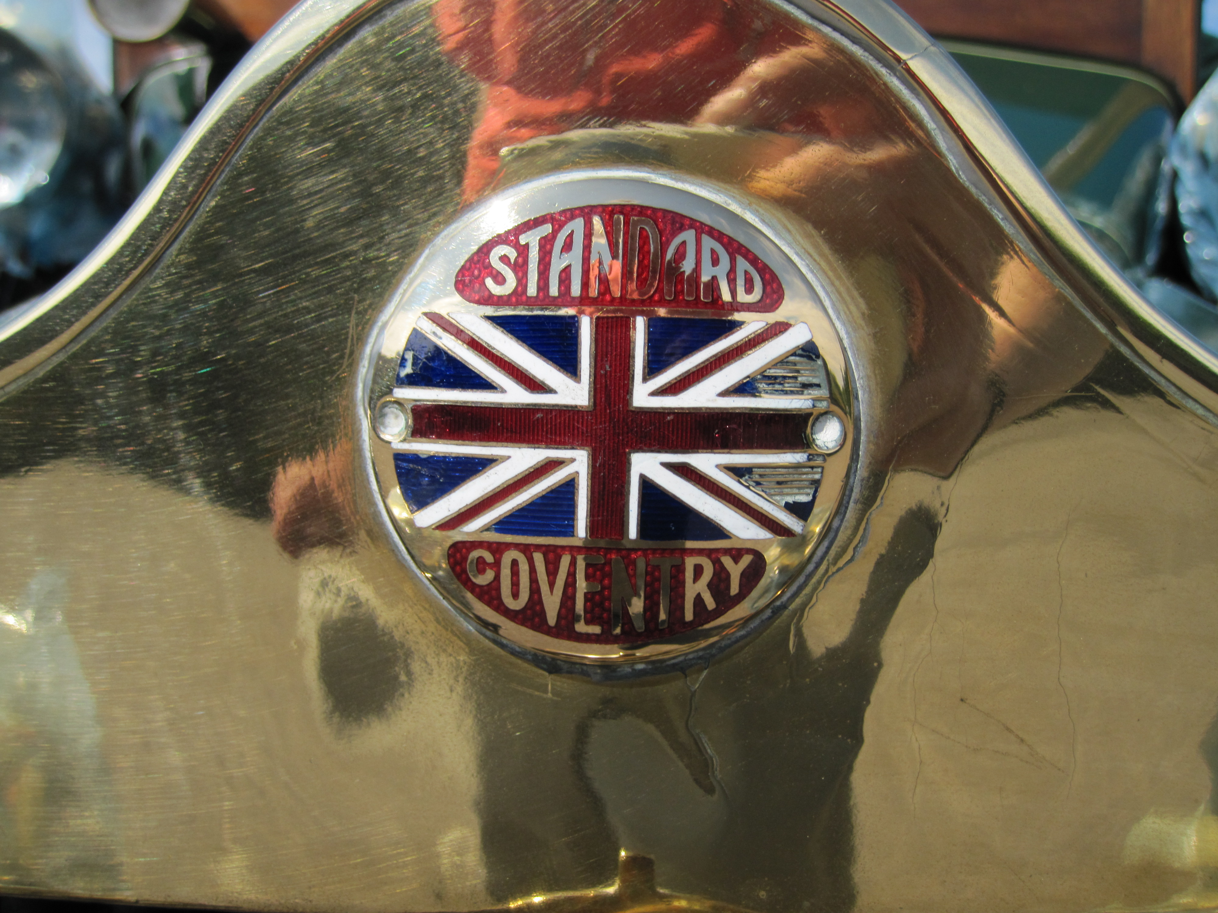 1913 Standard Model S 9.5HP Rhyl 2-seater tourer VCC Cricklade source of information